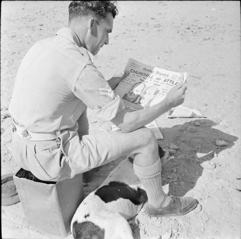 British Forces in the Middle East, 1945-1947 Before voting at a tented polling station close to the pyramids, Corporal E Hopwood of 10 Maple Avenue, Acton, Wrexham, studies the Sunday Dispatch newspaper lead article on how the two main parties, Conservative and Labour, are faring in the run up to polling day.